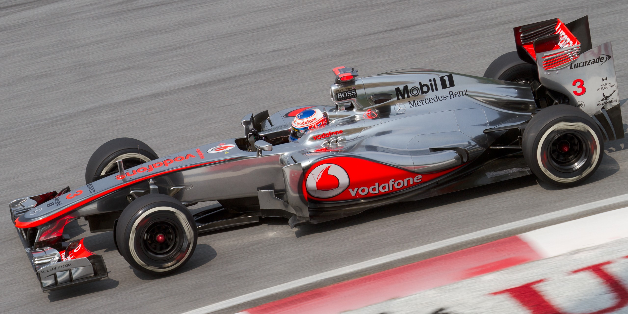 Formula One 2012 Rd.2 Malaysian GP: Jenson Button (McLaren) during the second practice session on Friday.